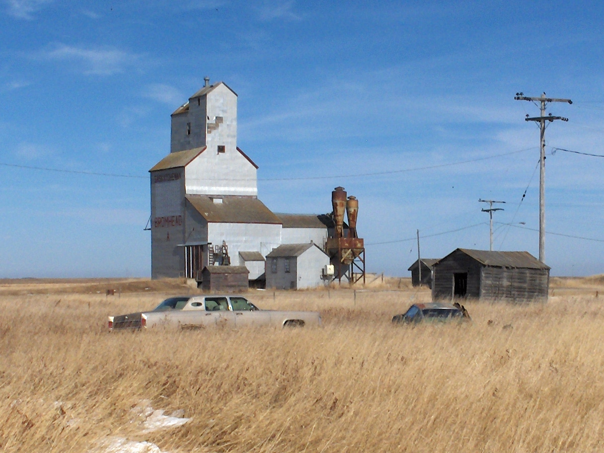 A grain elevator in the ghost town of Bromhead, Saskatchewan